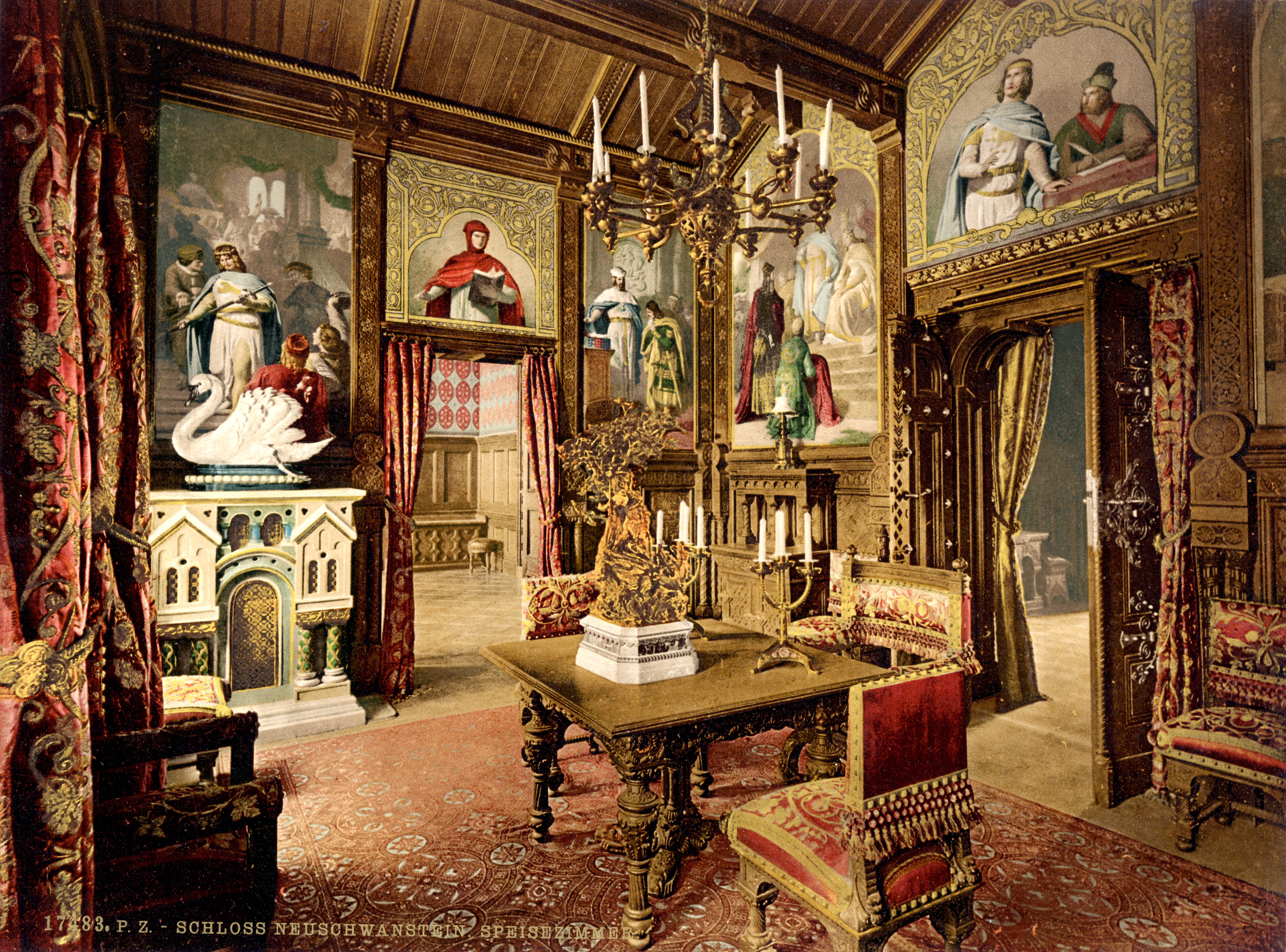 Dining room, Neuschwanstein Castle, Upper Bavaria, Germany. Photograph by Joseph Albert 1886, postcard published ca. between 1890 and 1900. Detroit Publishing Co. print no. 17483.